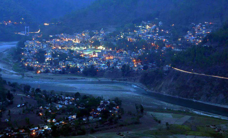 Jorethang looking beautiful in night time.